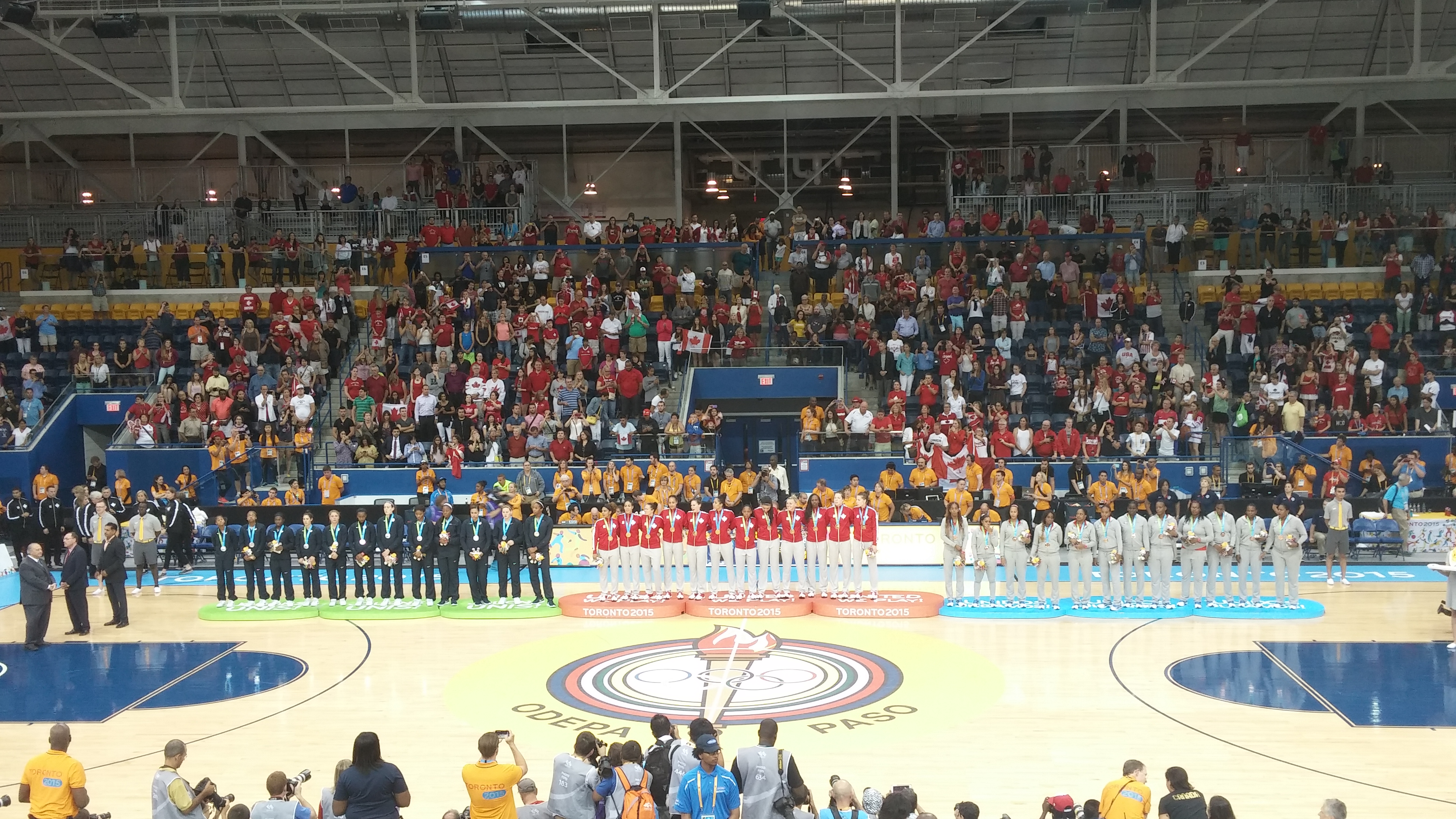 The women's podium of the 2015 Pan American Games basketball competition